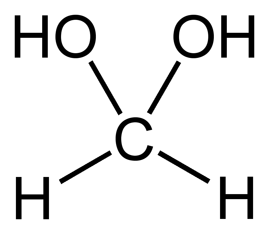 Structural formula of methanediol (formaldehyde hydrate)